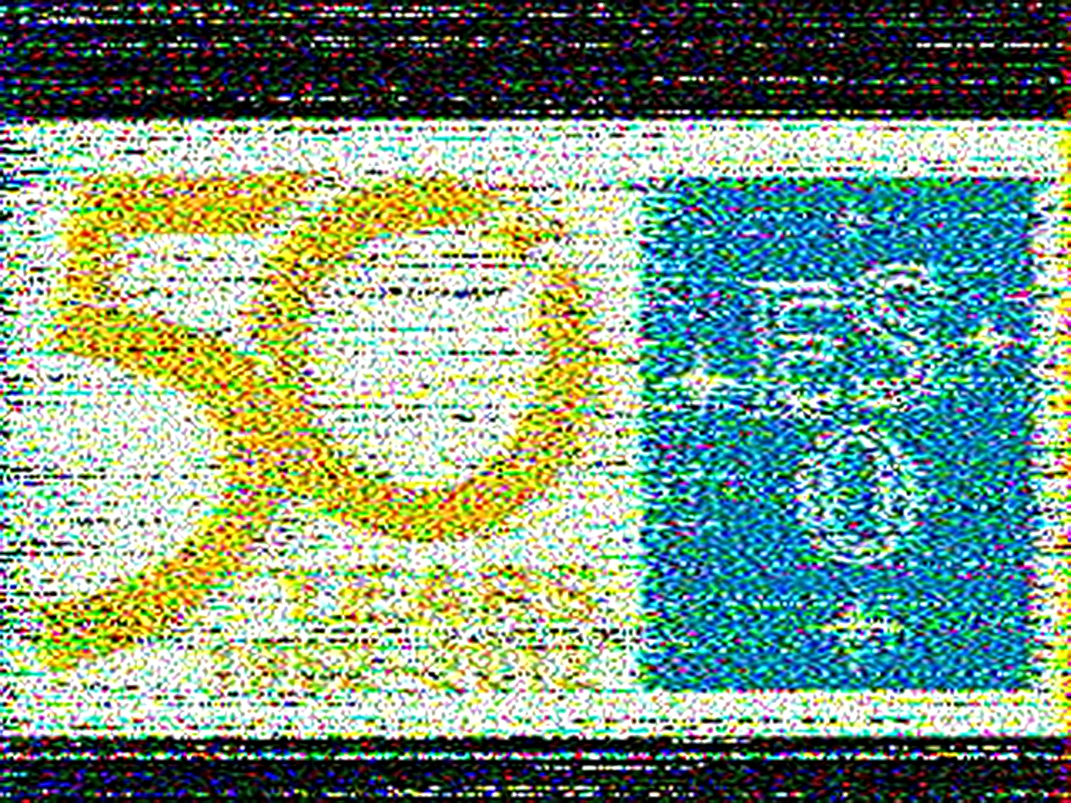 This image shows ESO’s 50th anniversary logo after being reflected from the Moon’s surface via a radio communication technique called Moonbounce or Earth-Moon-Earth (EME).